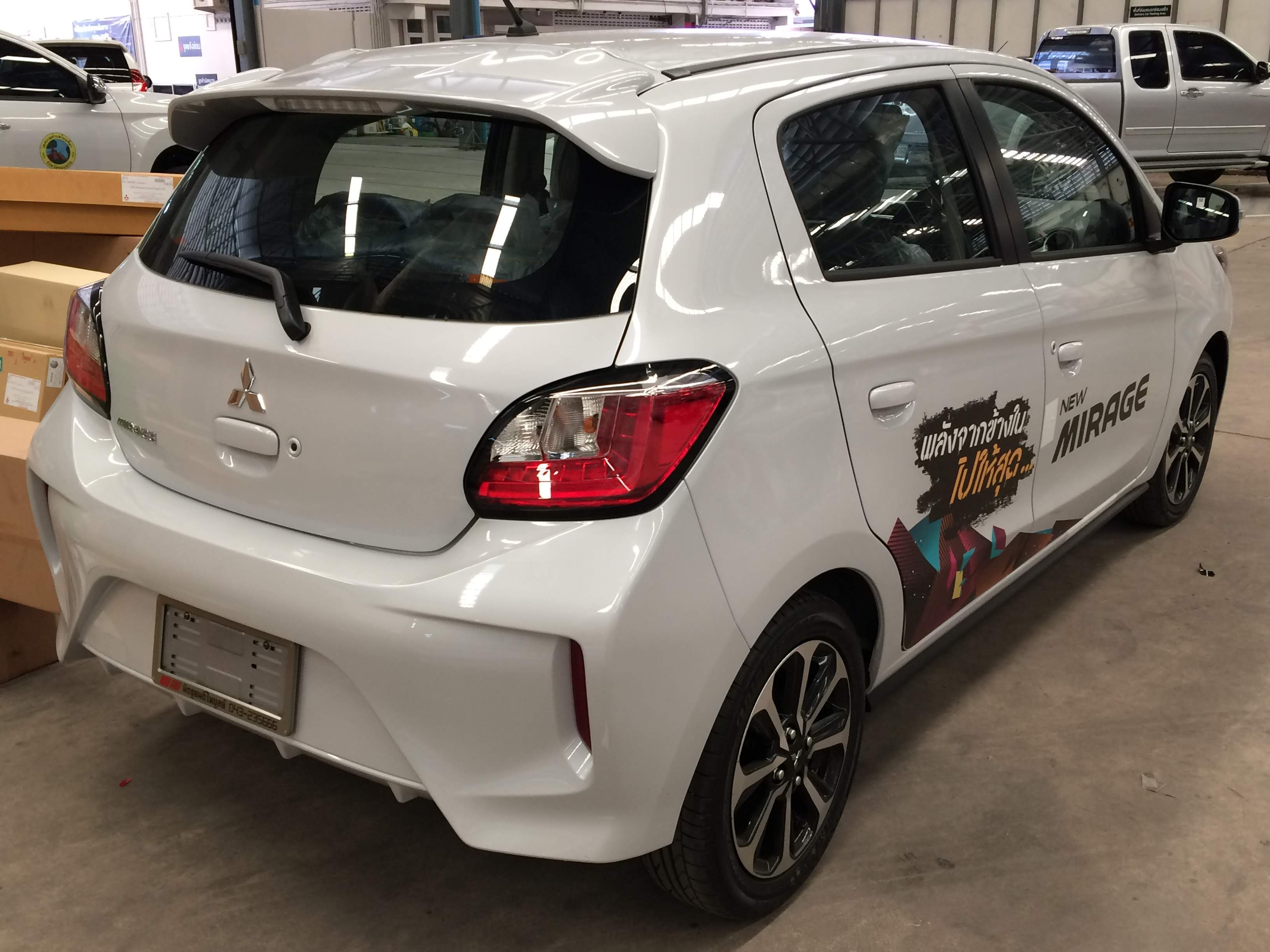 2019 Mitsubishi Mirage 1.2 GLS in Khon Kaen, Thailand.